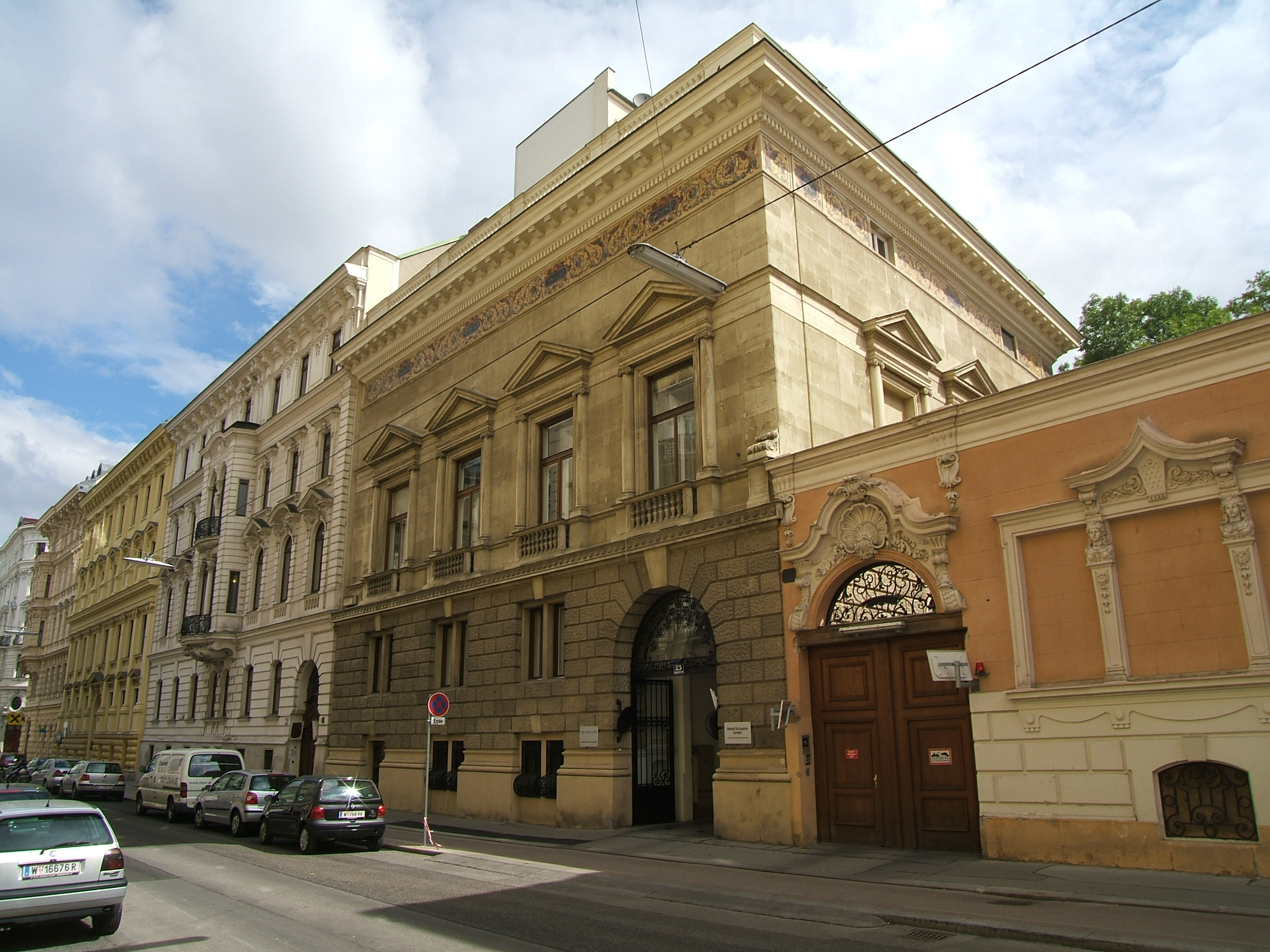 Palais Wessely in Vienna 4th district Argentinierstraße 23